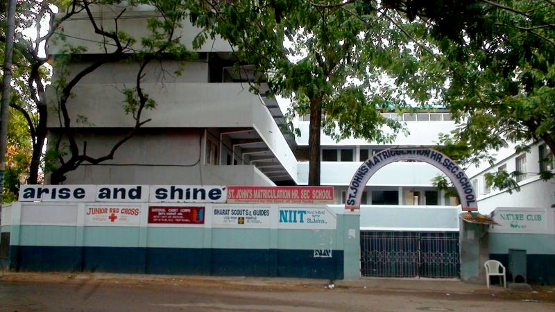 Picture of St._John's Matriculation Higher Secondary School Alwarthirunagar Building.jpg